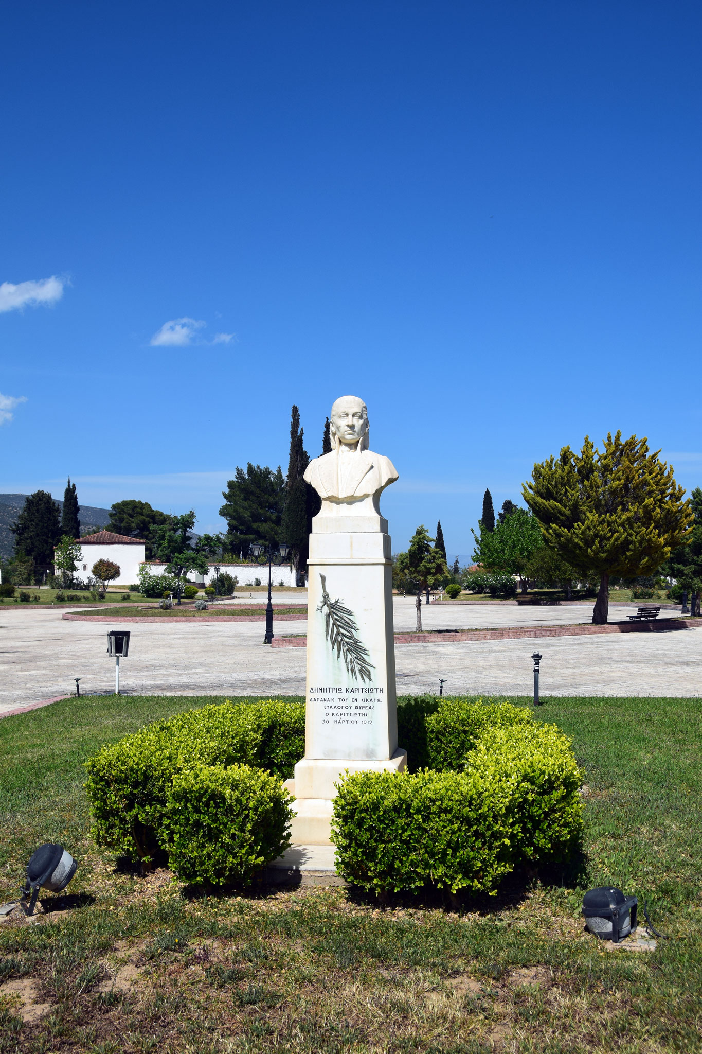 Dimitrios Karitsiotis' bust in Karitsiotis square of Astros in Arcadia, Greece.